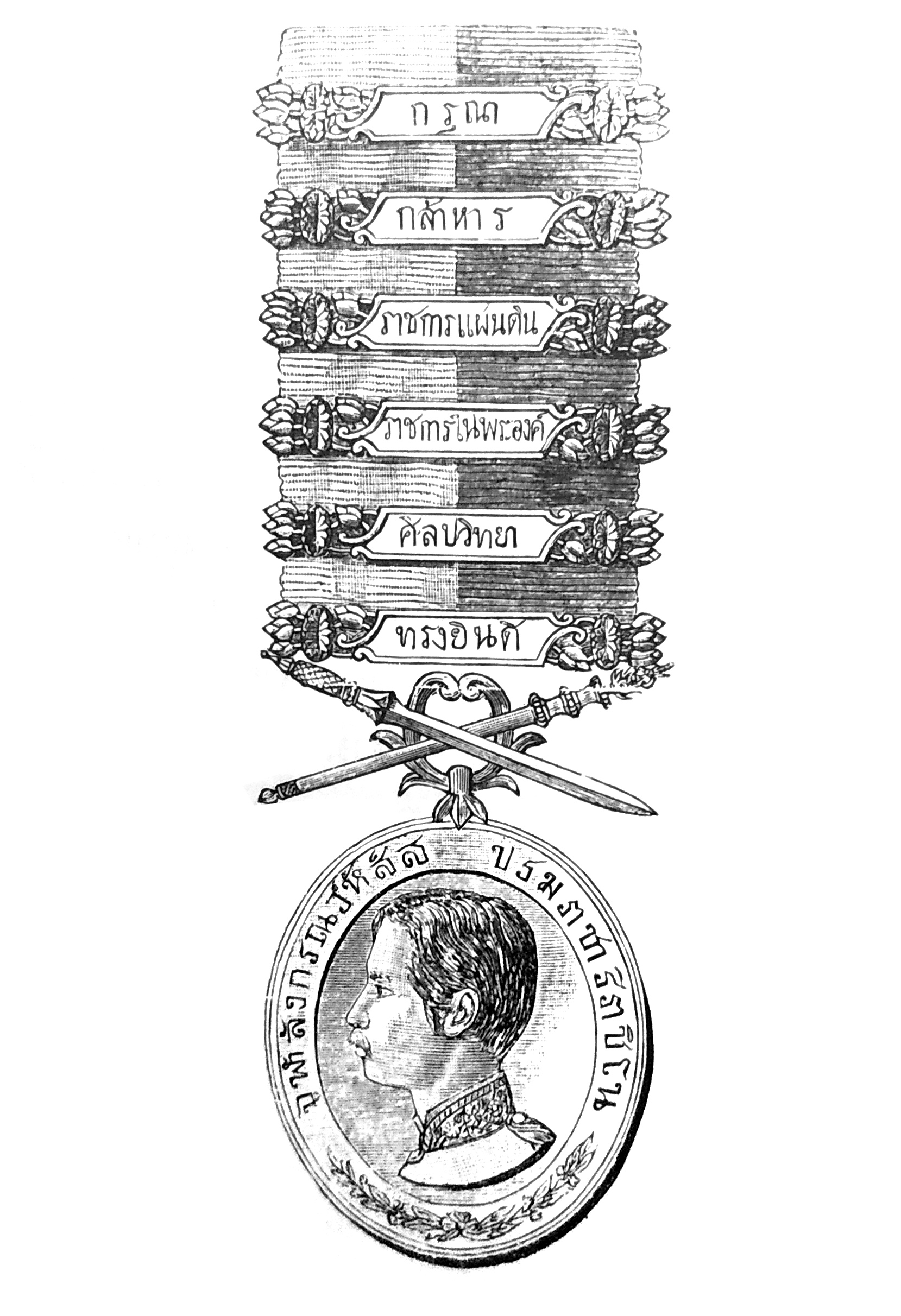 Engraving of Dushdi Mala Medal with medal bars of merit from Dushdi Mala Medal Act of Chula Sakarat 1244, B.E. 2425 (obverse). Published in the journal "Rajatabhisheka Vol.1", printed by the Department of Education of the Kingdom of Siam in 1894.